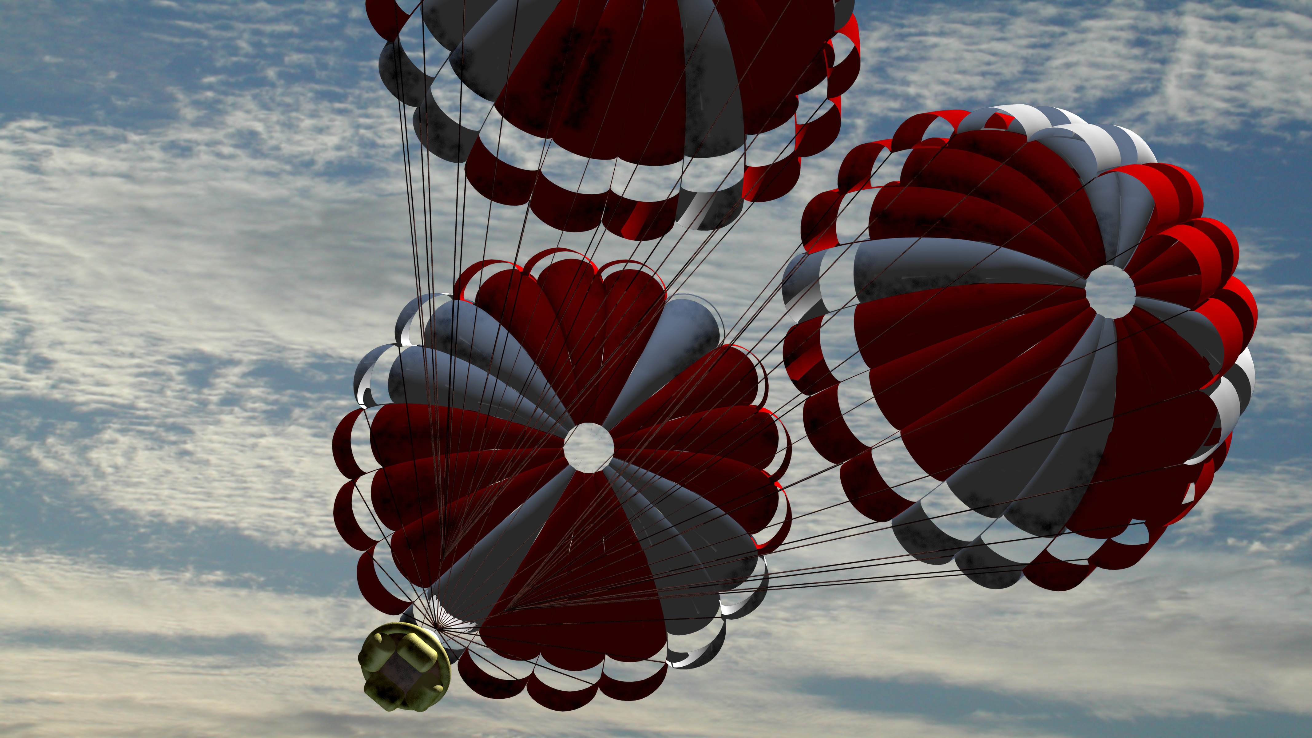 The descent of a CEV spacecraft after re-entry